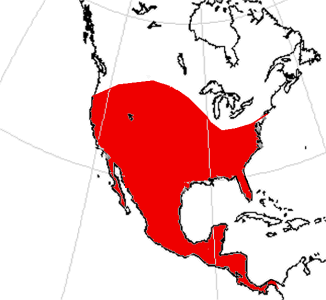 Borophaginae range based on fossil finds.